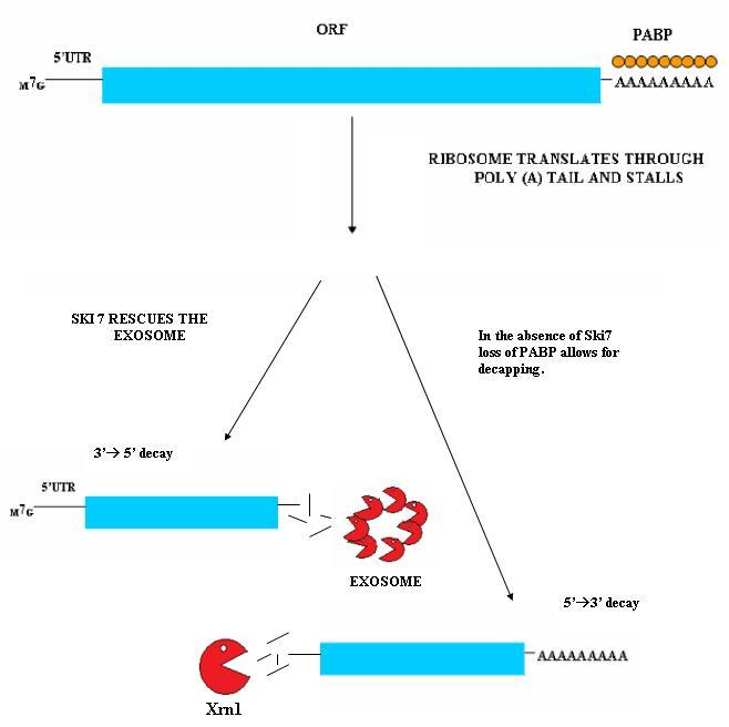 revised non stop decay